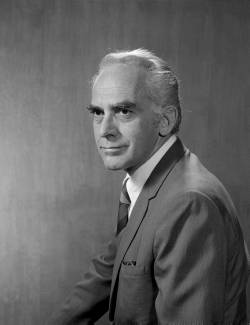 A photograph of scientist and mountaineer William Siri